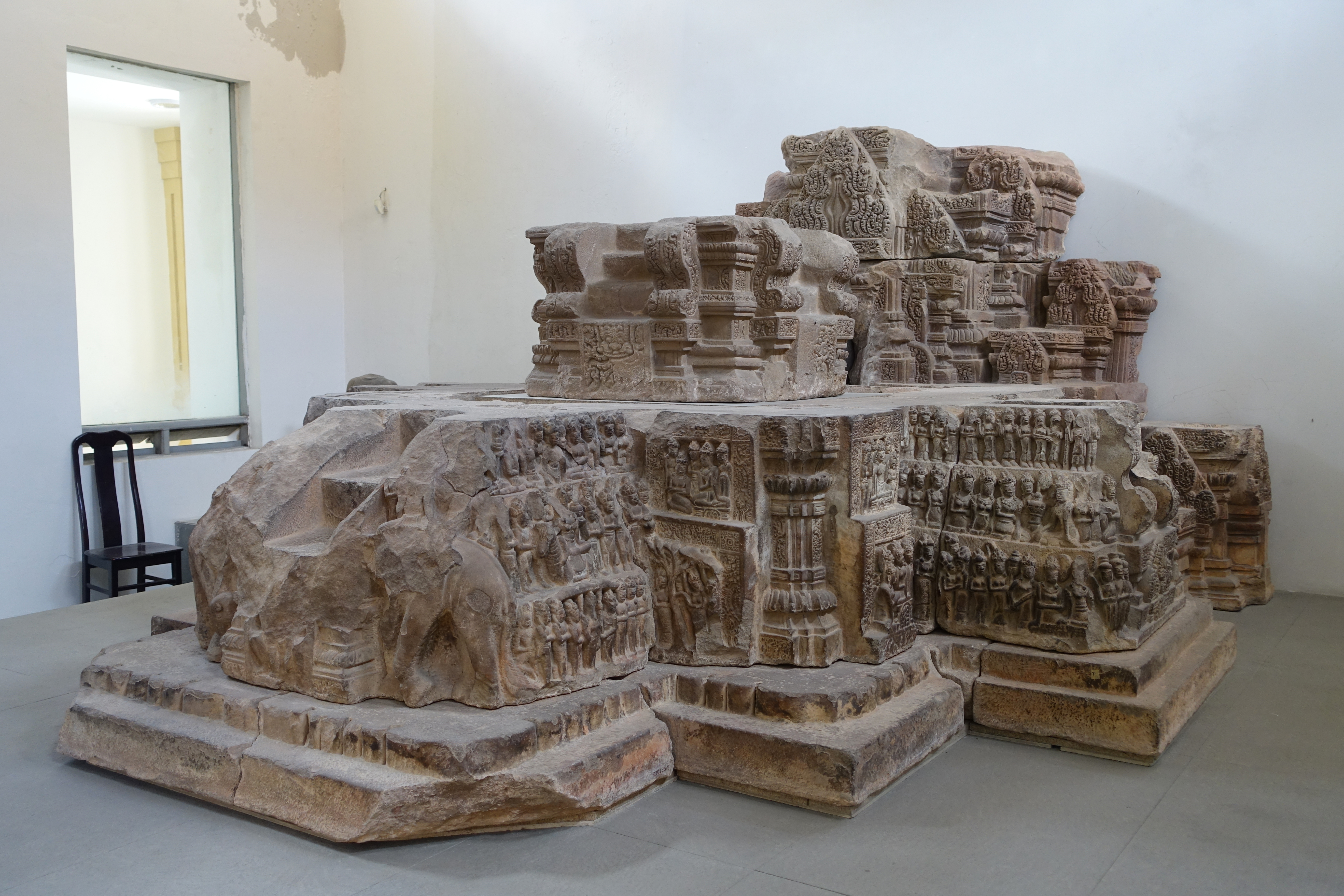 Cham sculpture at the Museum of Cham Sculpture, Da Nang, Vietnam. This artwork is in the public domain because the artist died more than 70 years ago.